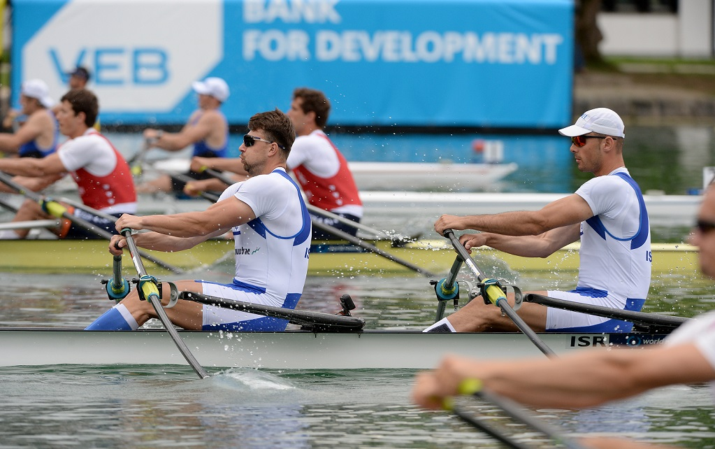 Israeli Rowing in the international arena